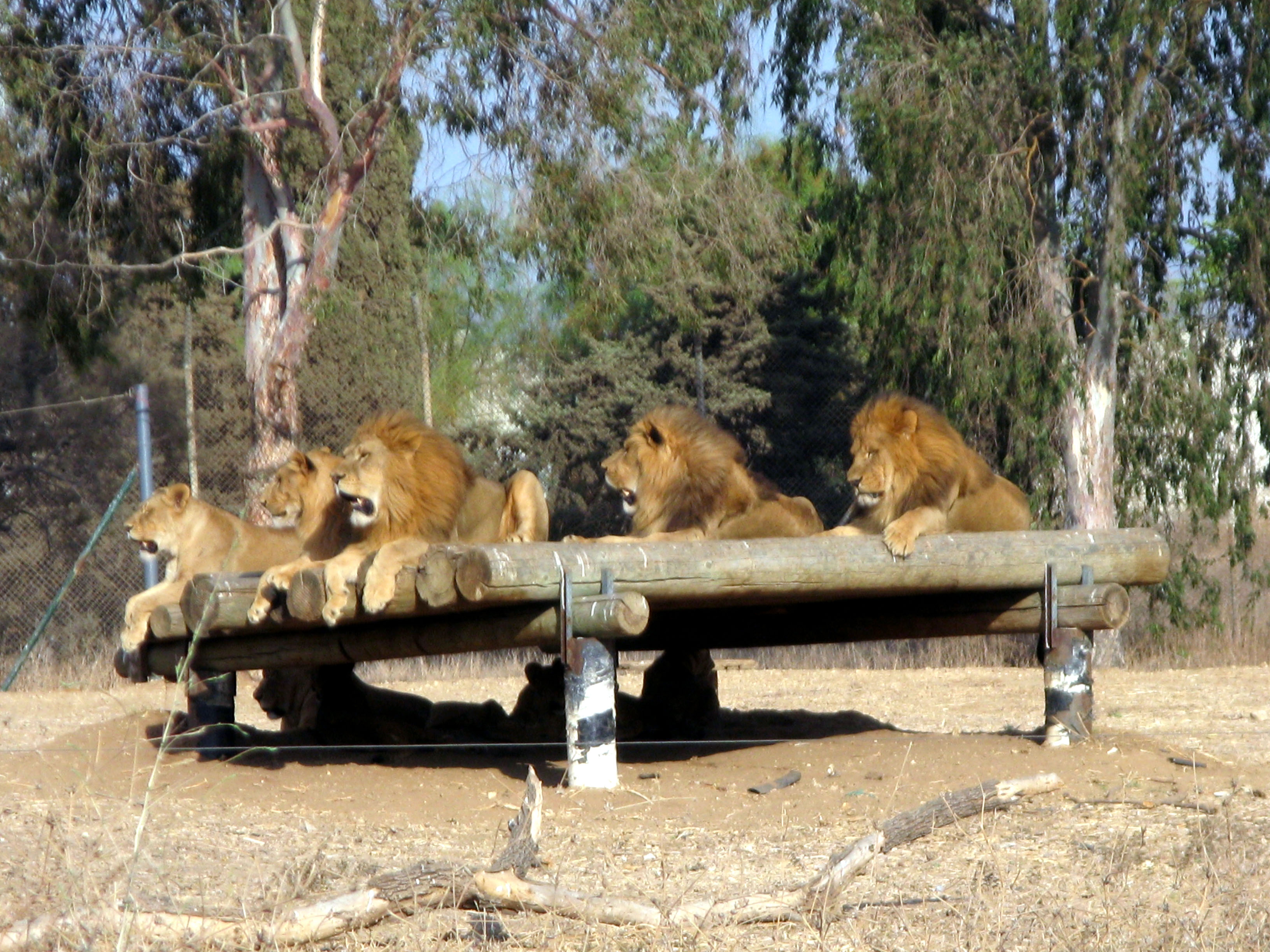 Lions in Ramat-Gan Safari